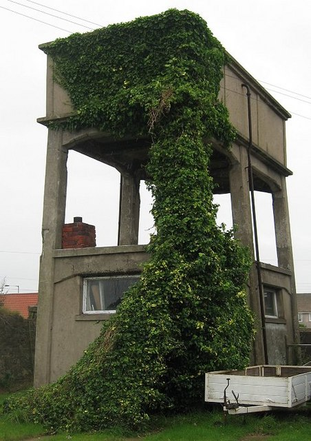 Military Water Tower Part of Robert's Battery, one of the two 'Tyne Turrets' established to protect the north east coast after the German bombardment of Hartlepool in 1914. The other identical gun battery was at Lizard Point in Marsden, Durham (known as the Kitchener Battery).